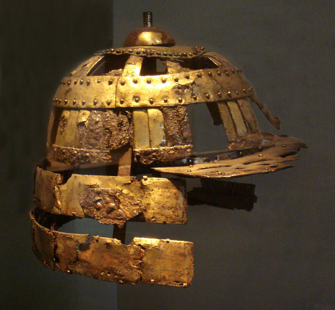 Kofun Helmet Iron And Gilt Copper 5th Century, Ise Province